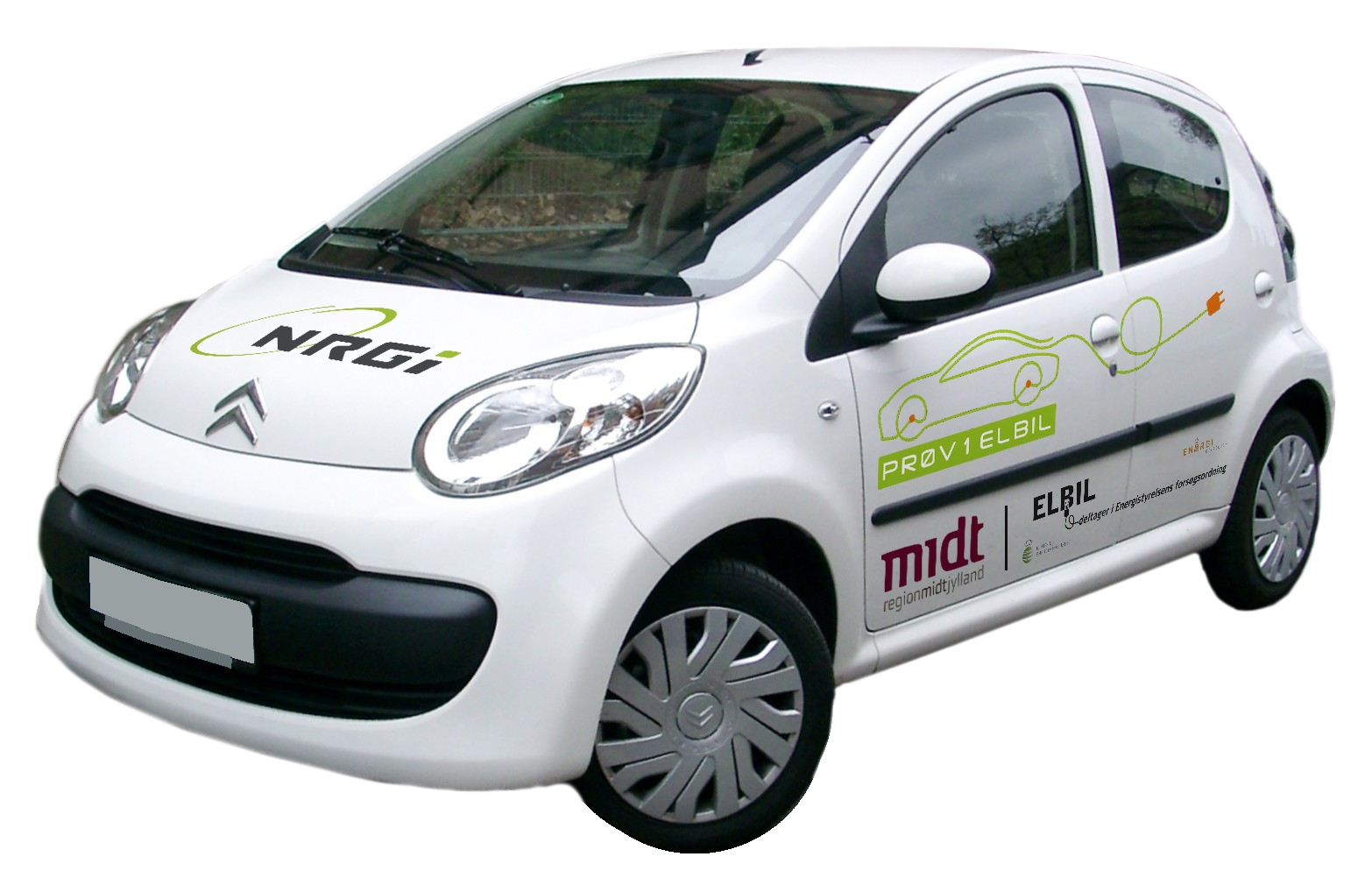 Electric Citroen C1 with ECTunes External Sound System. Part of the "Prøv1Elbil" electric vehicle test priject in Denmark.